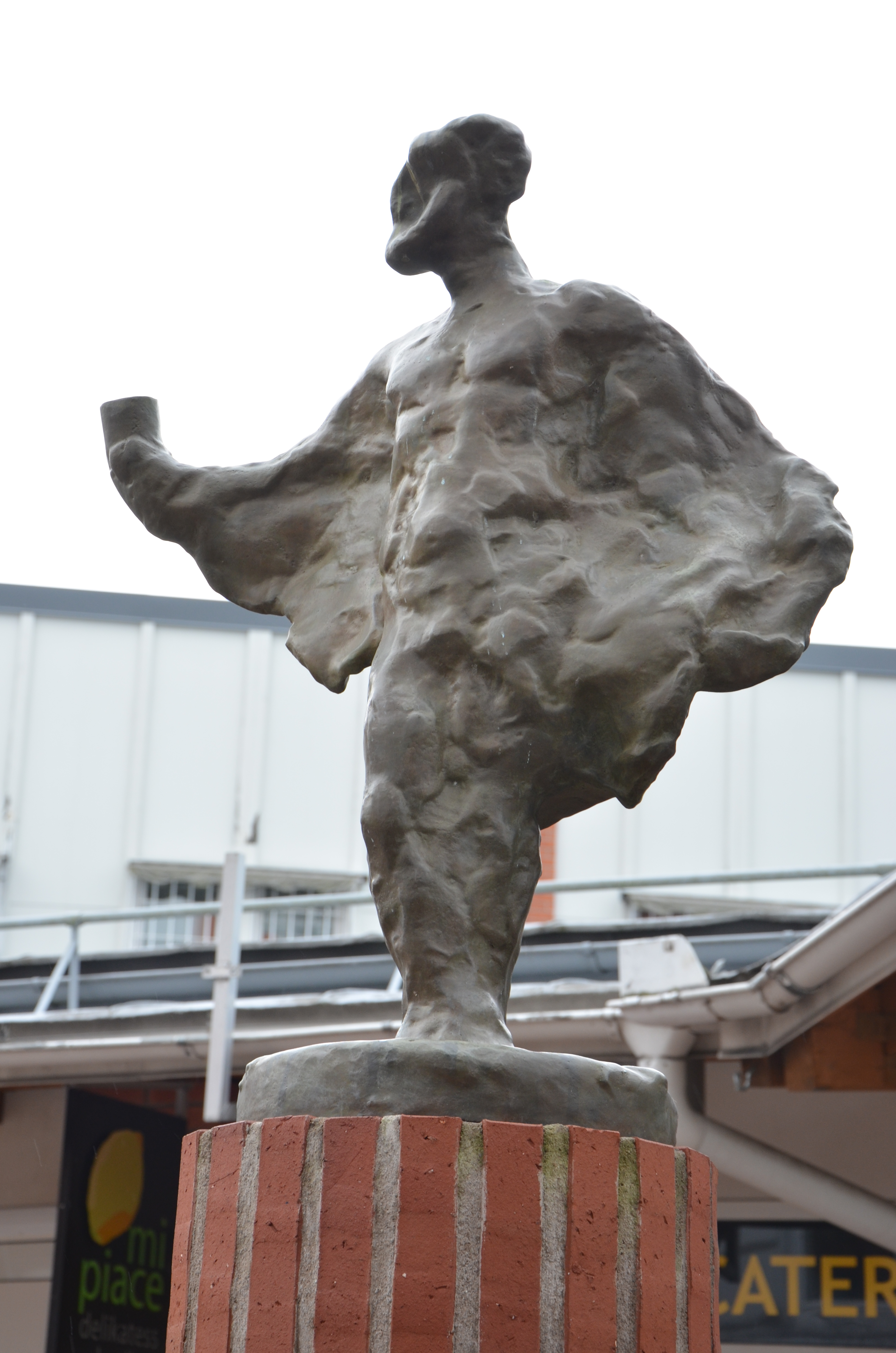 Peter Dahls Bacchus på Sjödalstorget i Huddinge centrum